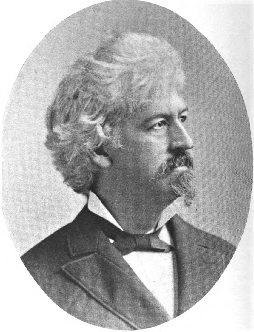 Portrait of American lawyer and author Ingersoll Lockwood (1841– 1918), age 35